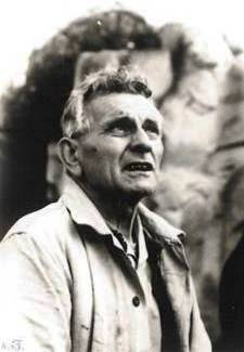 Luboš Hruška before Golgota.